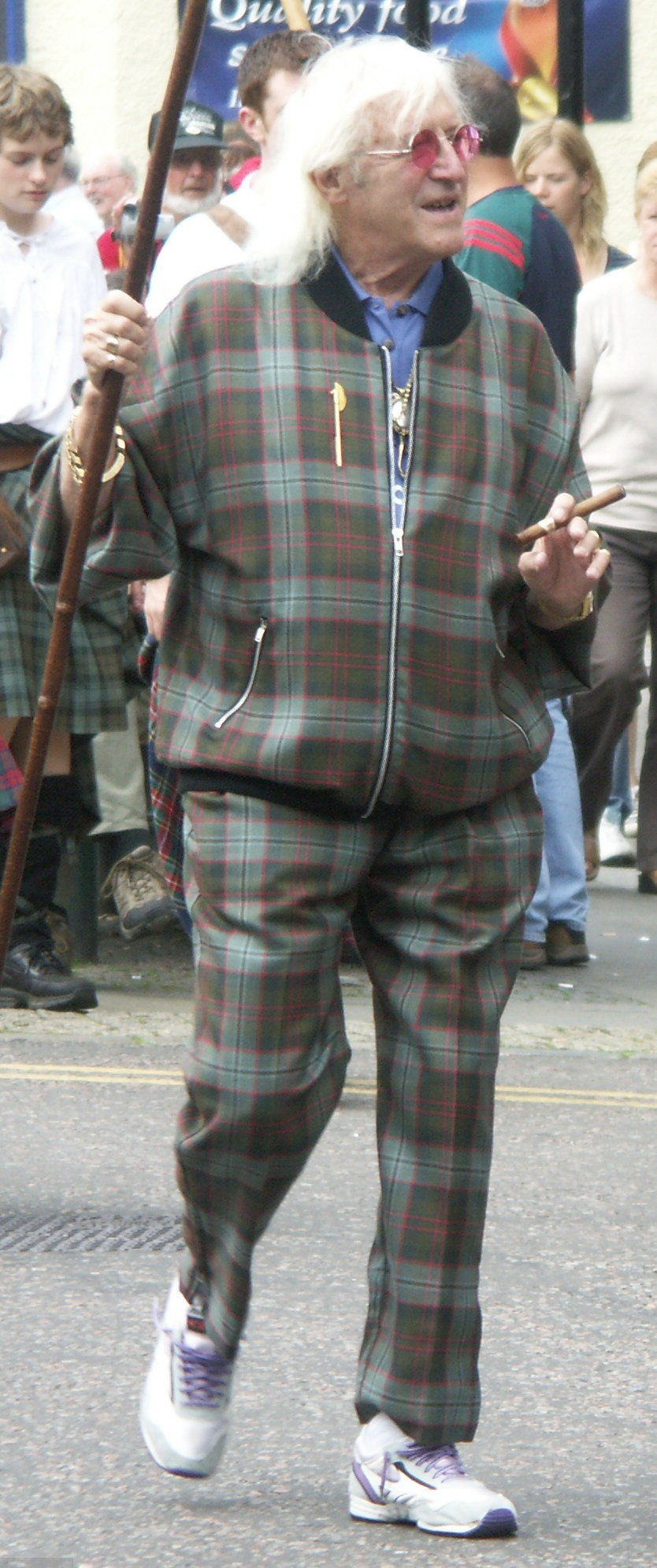 Sir Jimmy Savile Leading the pipe band through Fort William to the Lochaber Highland Games in his capacity as Honorary Chieftain of the games. This was taken on Saturday 29th July 2006, Sir Jimmy Savile recorded the final edition of Top of the Pops during the week rather than take part in a live broadcast on Sunday because of his commitment to the Lochaber Highland Games. He announced that he was stepping down from being Honorary Chieftain but would continue to be a "Special Friend" of the games.